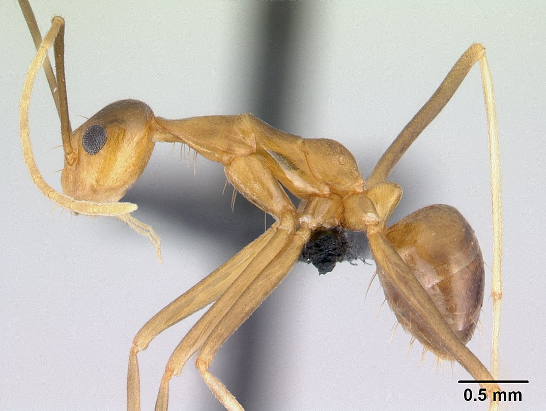 Profile view of ant Anoplolepis gracilipes specimen casent0188536.